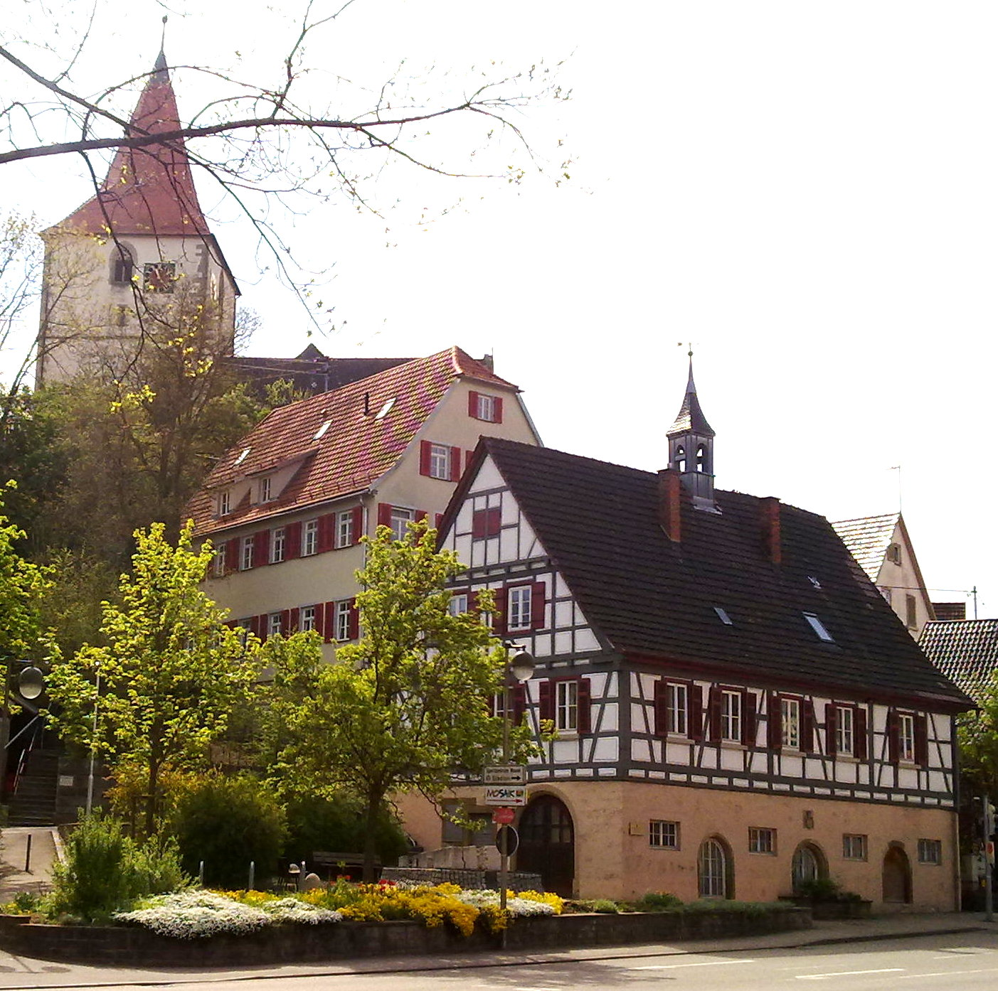 Beihingen, former town-hall and school, Amandus church